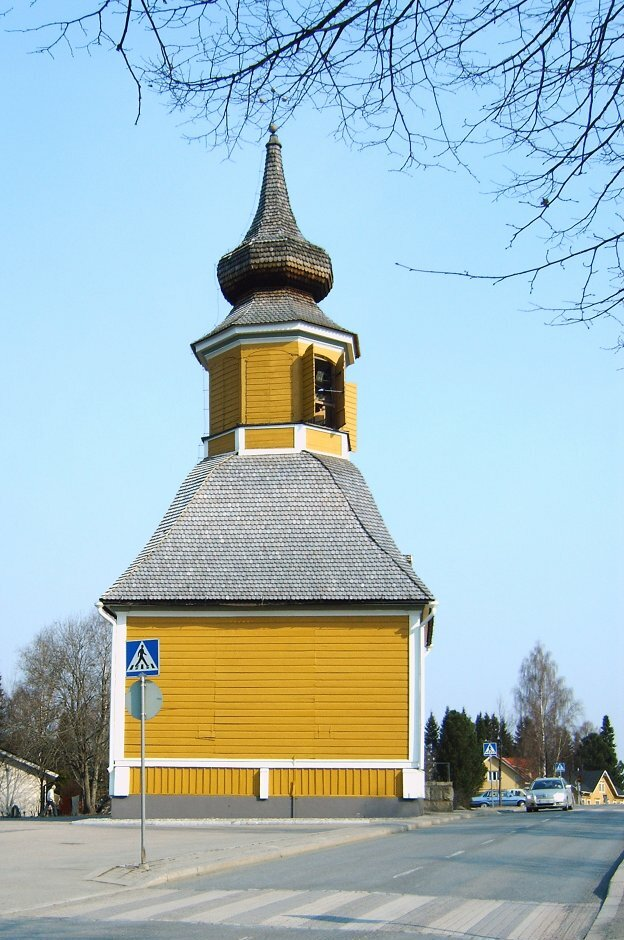 Old belfry near the modern church in Orivesi, Finland